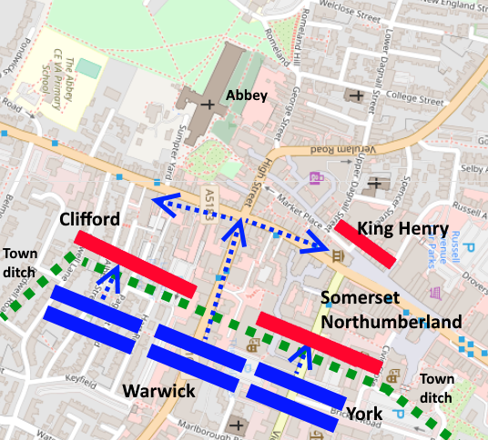 Map showing the dispositions of the respective armies at the beginning of the The Battle of St Albans, 22 May 1455. Map of St Albans is taken from OpenstreetMap ([1]); armies, ditch, etc, taken from Benjamin Hare's 1634 map.